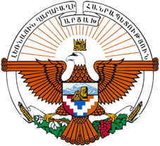 Coat of arms of Nagorno-Karabakh uploaded from the website of the Ministry of foreign affairs of the Republic of Armenia